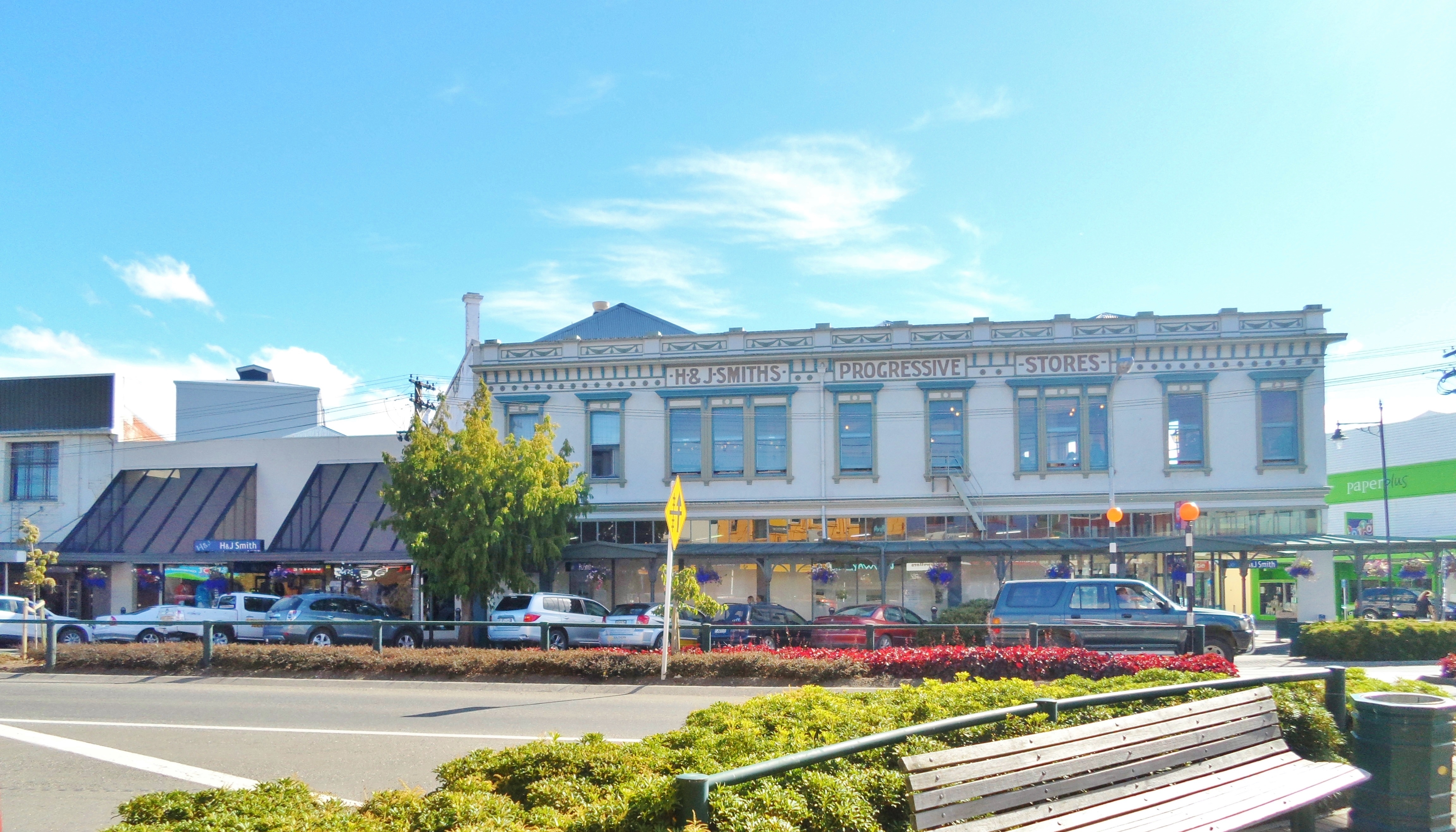 Front facade of H & J Smith Gore on Main Street, showing both the original building and modern addition.